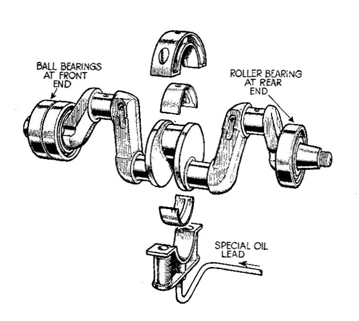 Austin Seven centre-bearing crankshaft (Autocar Handbook, 13th ed, 1935).jpg